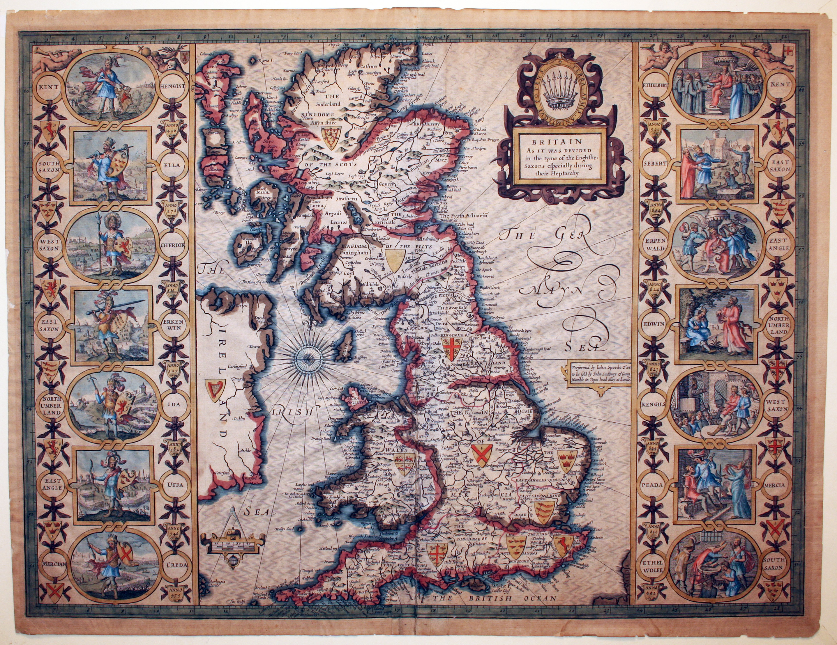 Map of Saxon Heptarchy by John Speed from his Theatre of the Empire of Great Britaine.